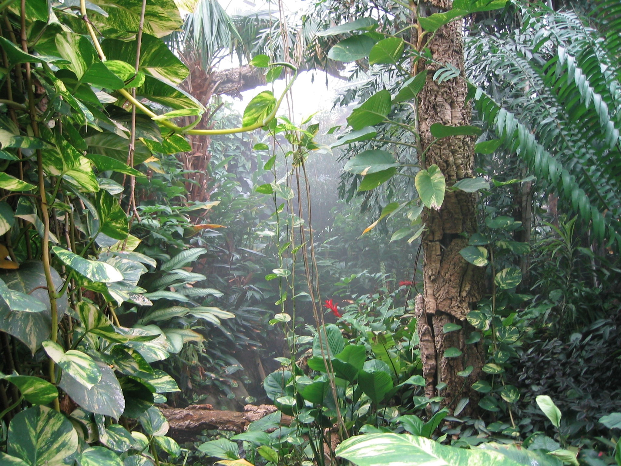 Tropical World, Roundhay, Leeds Forest view